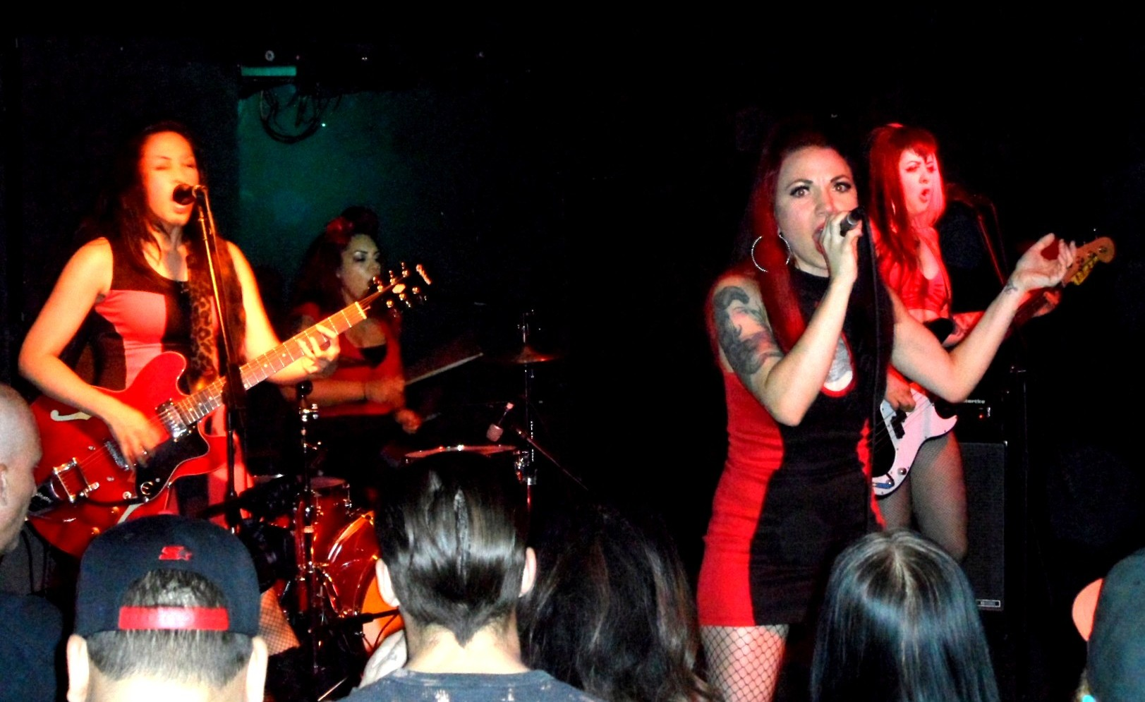 The band L'Assassins performing in Chicago at the Livewire Lounge